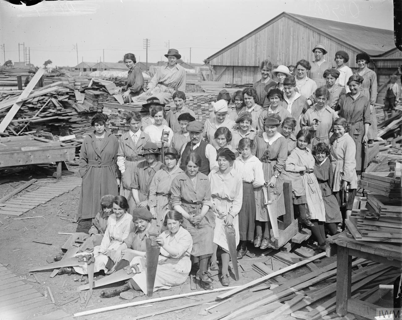 The Employment of Women on the Western Front, 1914-1918 Groups portrait of women carpenters working at the Tarrant Hut Workshops, 3 miles from Calais, 26 June 1918.